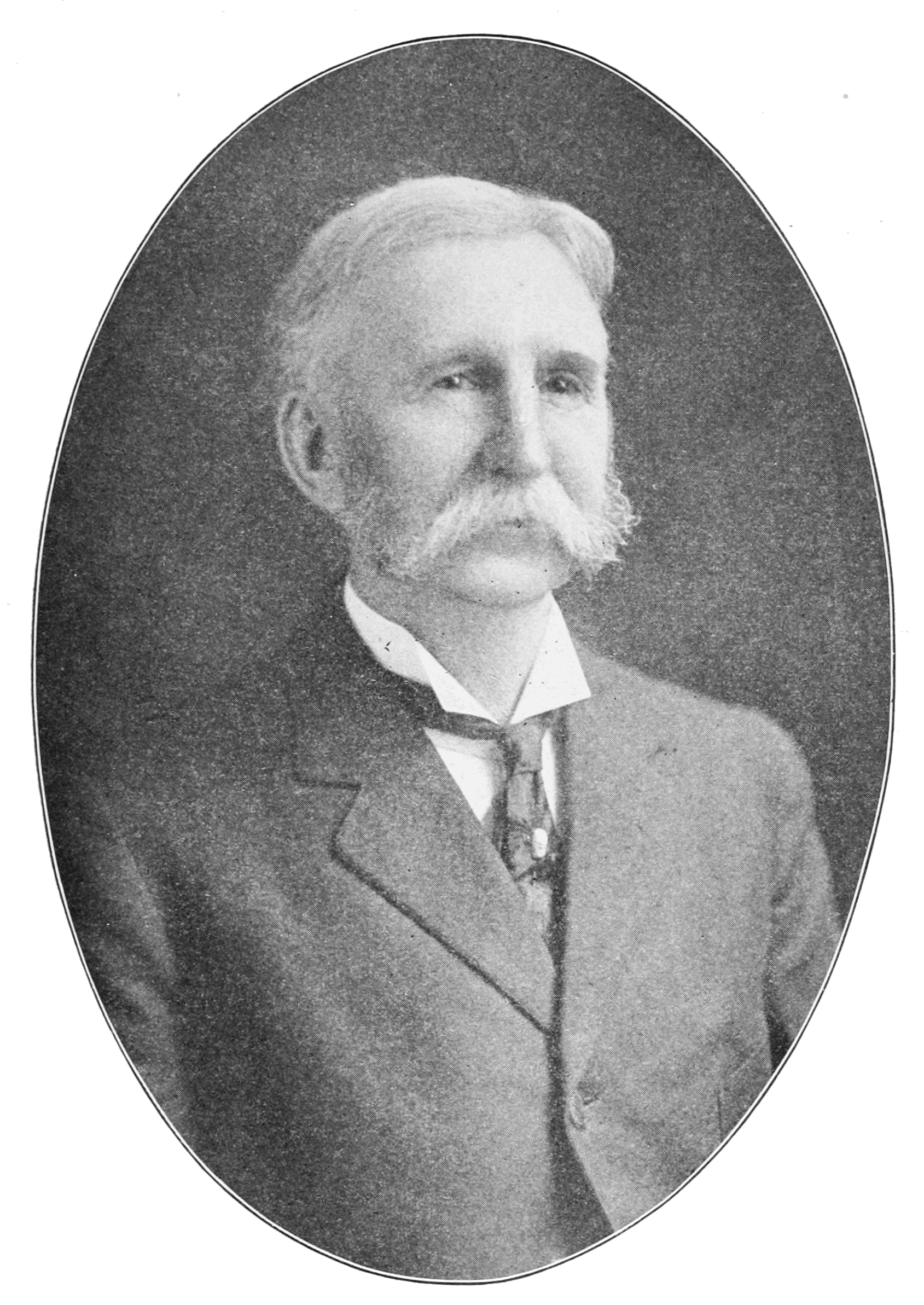 Frederic Augustus Lucas